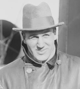 Fred Tobias Fulton circa 1920